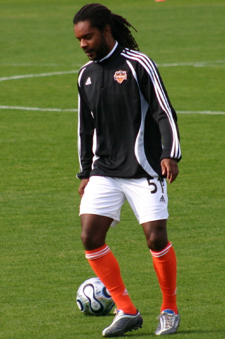 Adrian Serioux at the 2006 MLS Cup.IMG_7618